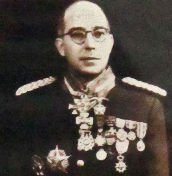 Marshall Osvaldo Cordeiro de Farias.